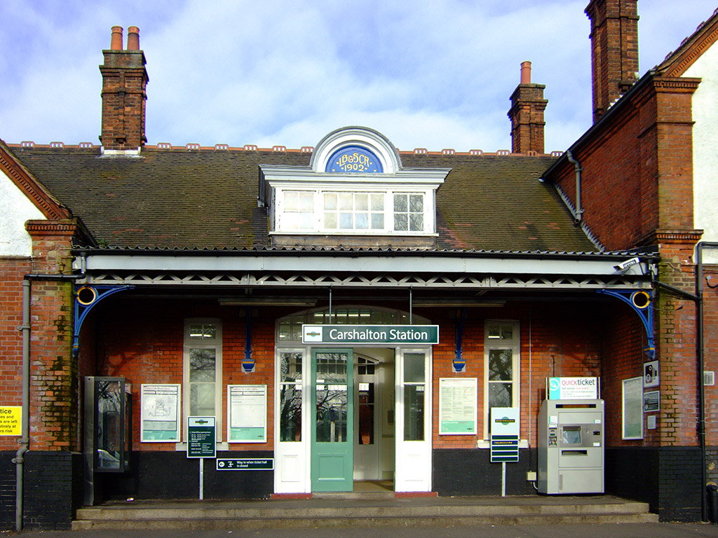 Carshalton Station, Carshalton, Surrey, United Kingdom